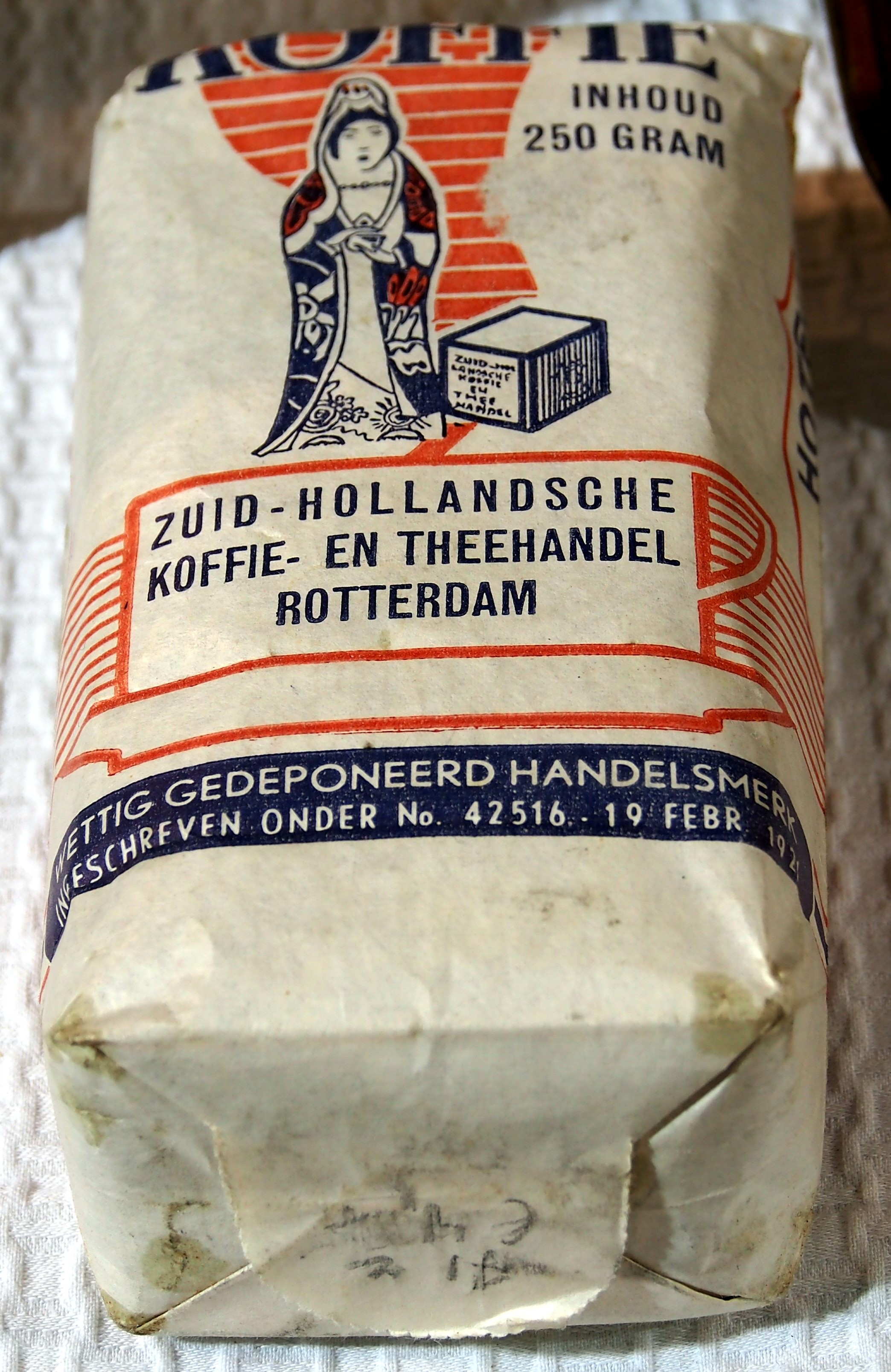 Old product that is not sold/produced anymore!